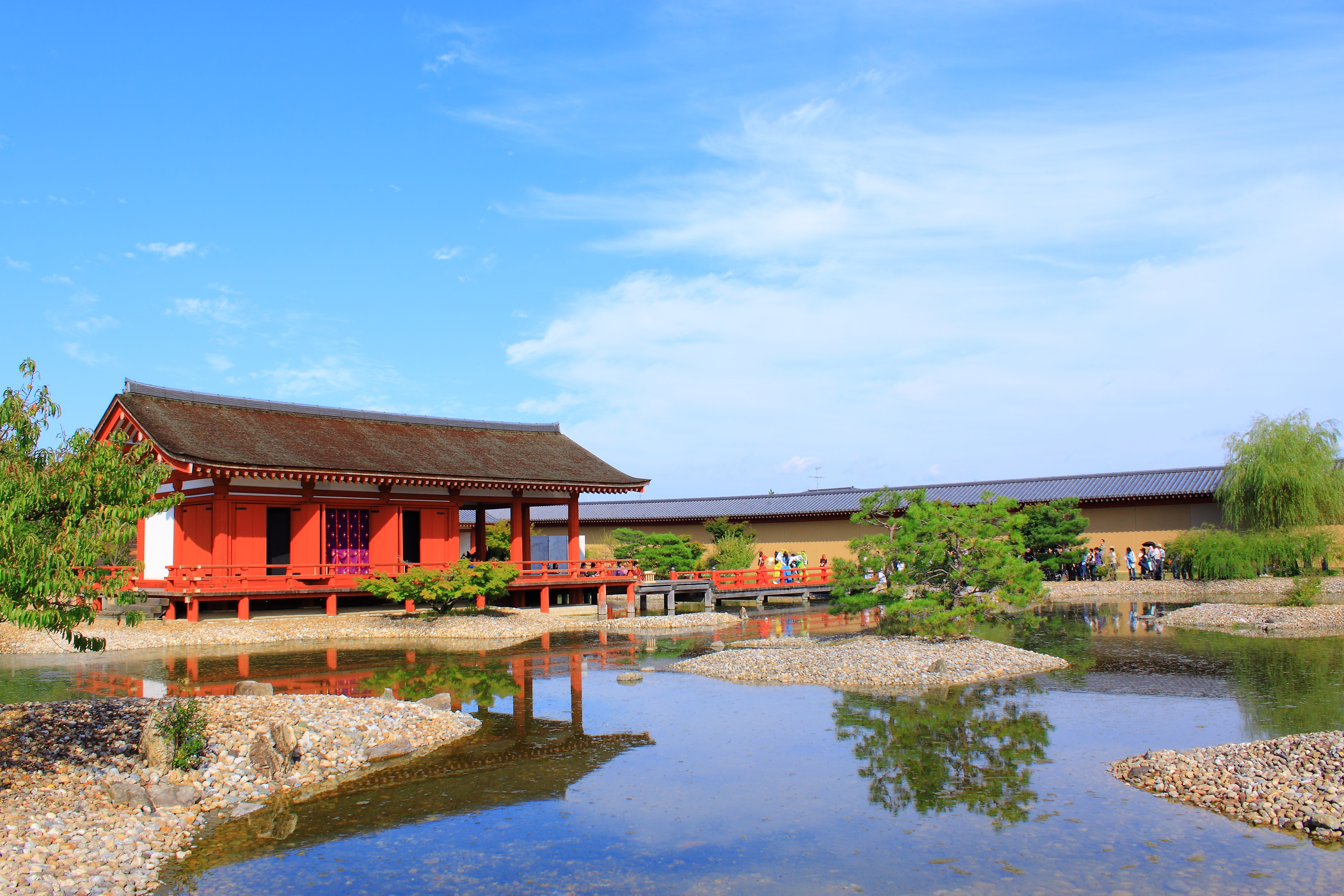 East Palace Garden (Tōin Teien) in Heijō Palace. (Nara Prefecture)